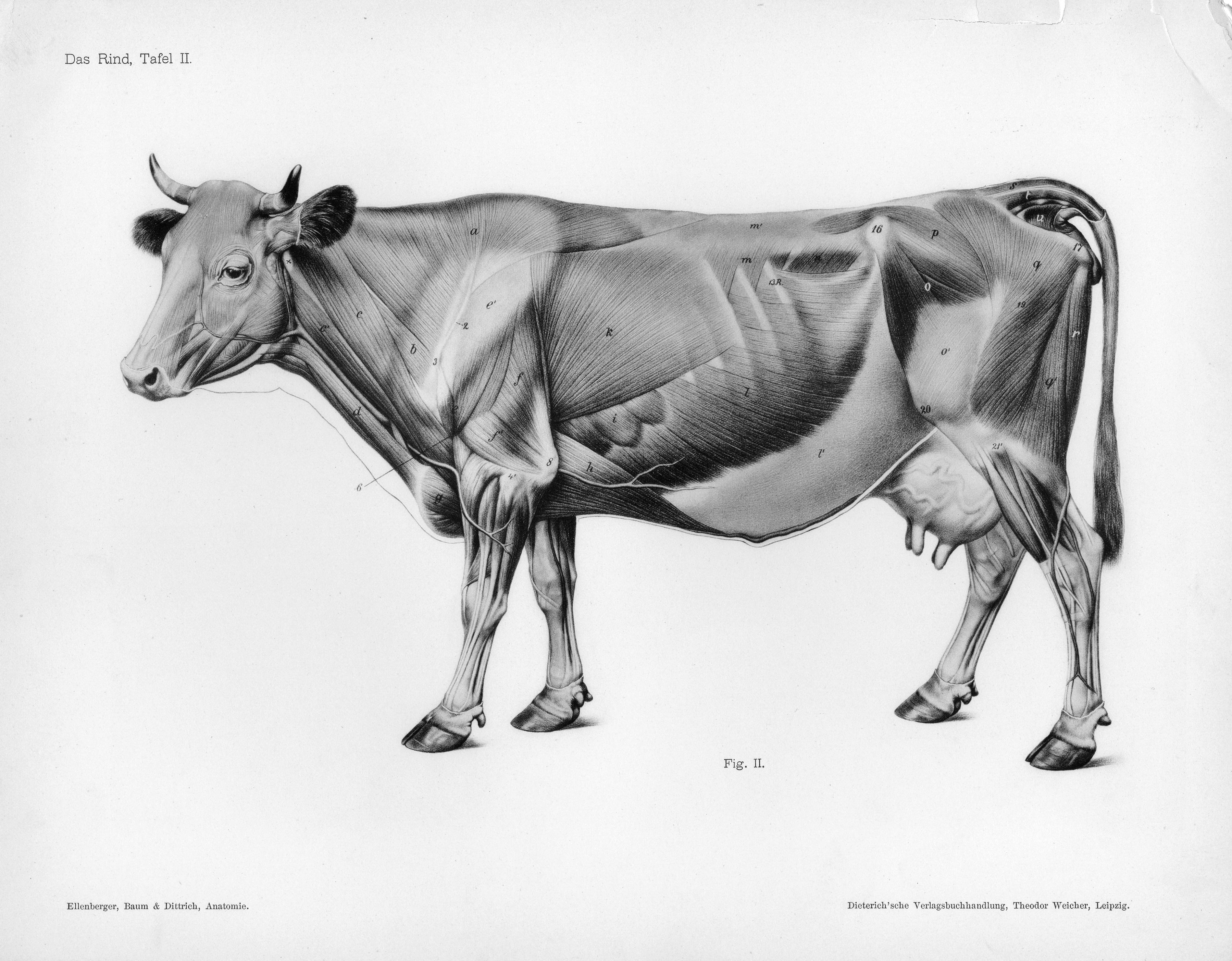 Das Rind, Tafel II [Cattle, Plate 2]. Animal anatomical engraving from Handbuch der Anatomie der Tiere für Künstler. Band 2: Das Rind.This is a left lateral view displaying primarily the superficial muscles of a whole cow. Also displayed are certain palpable bony landmarks and certain blood vessels. a) M. trapezius b) M. levator scapulae c) M. cleidomastoideus d) M. sterno-mandibularis e) M. deltoideus f) M. triceps brachii, long head f') M. triceps brachii, lateral head g) M. pectoralis major h) M. pectoralis minor i) M. serratus anterior j) M. latissimus dorsi k) M. obliquus abdominis externus m) M. serratus posterior n) M. obliquus internus abdominis o) M. tensor fasciae latae p) M. glutaeus medius q) M. biceps femoris, long head q') M. biceps femoris, short head r) M. semitendinosus s) ? t) ? w) ? x) ? 2) spina scapulae 3) acromion 4) humerus 6) ? 8) olecranon 13.R) 13th costae 16) crista iliaca 17) os ischii 20) patella 21) tibia